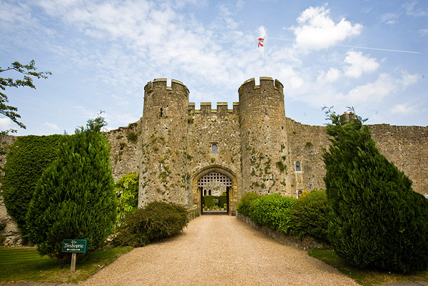 Amberley Castle, East Sussex